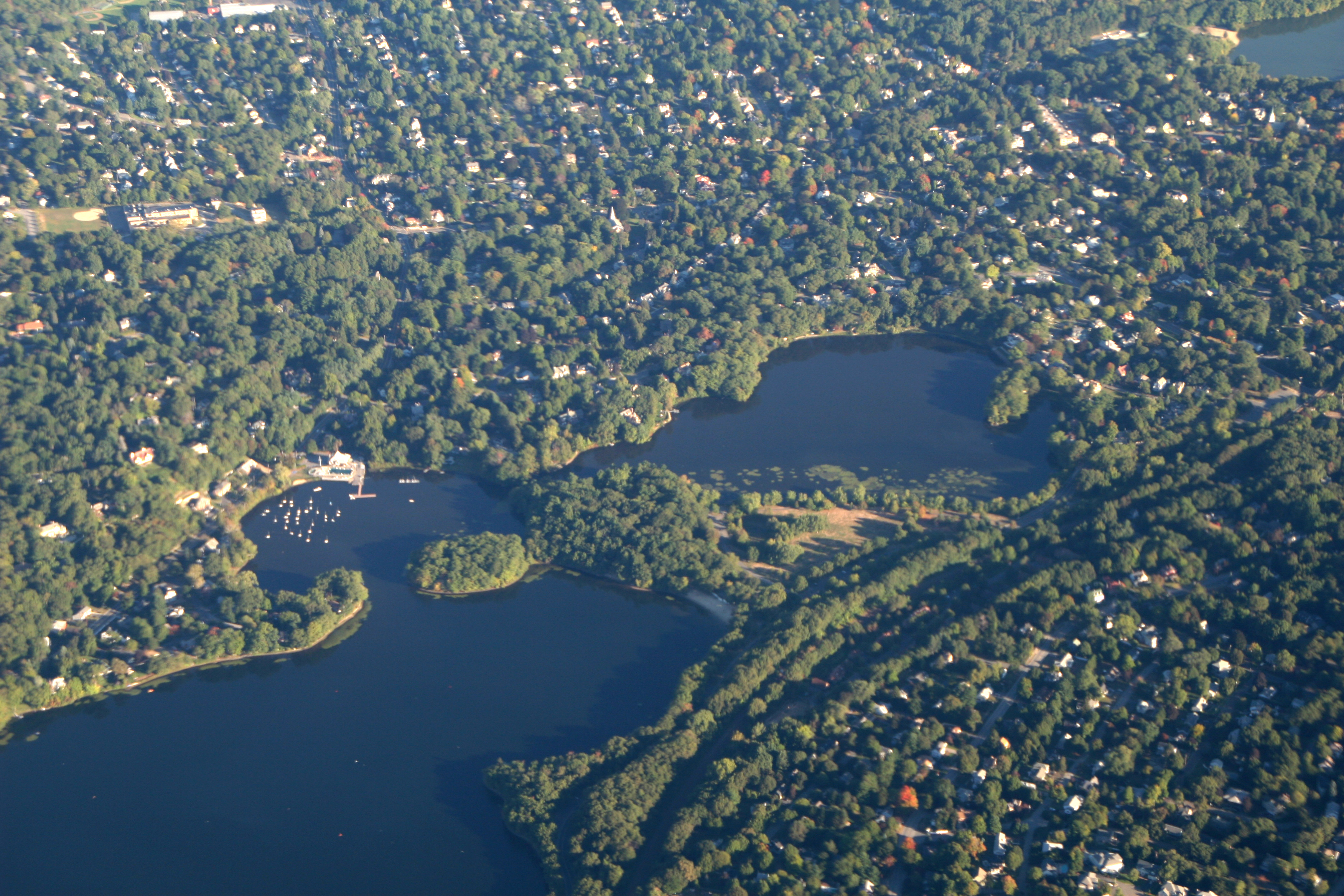 Aerial photograph of Upper Mystic Lake, Wedgemere, and Mystic Valley Parkway.